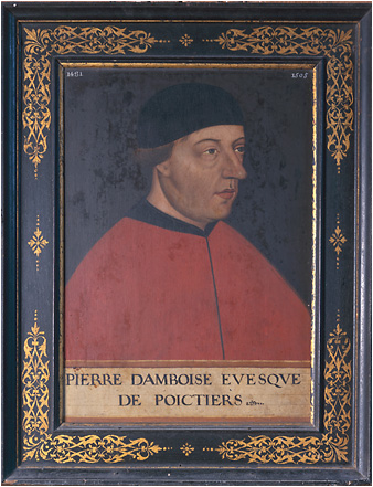 Pierre d'Amboise (?–1505), who was appointed Bishop of Poitiers in 1481 by Louis XI of France. The son of Pierre d'Amboise (1408 – 28 June 1473) and brother of Georges d'Amboise (1460 – 25 May 1510), he was Louis XII's cardinal and first minister. He built the Castle of Dissay near Poitiers.